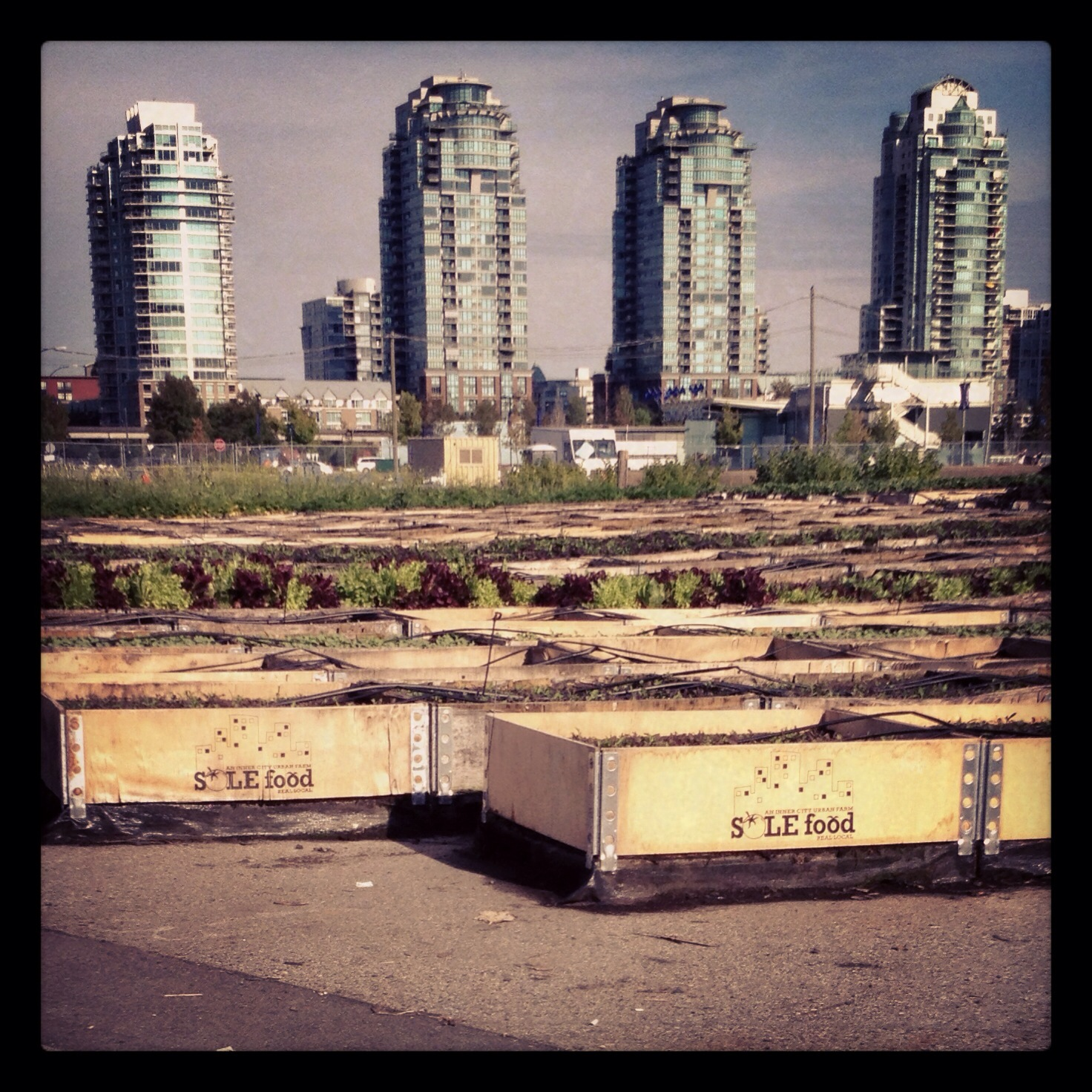 Sole Food Street Farms, False Creek Location. One of four sites operated by Sole Food Street Farms in Vancouver, BC, Canada. This photo was taken 2013:08:11.